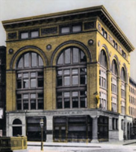 Demarest building in 1891 located at the southeast corner of Fifth Ave and Thirty-third Street.